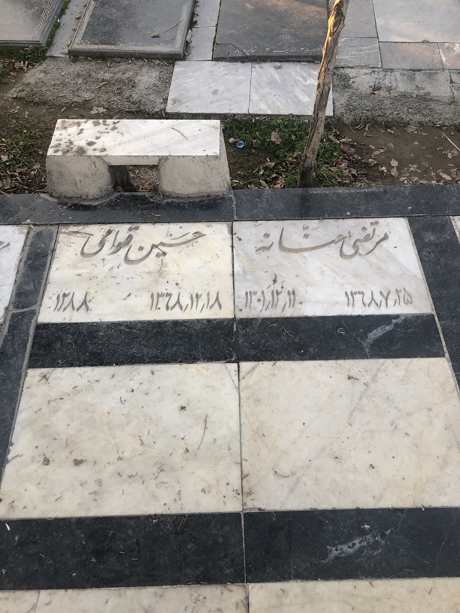 Emamzadeh Taher